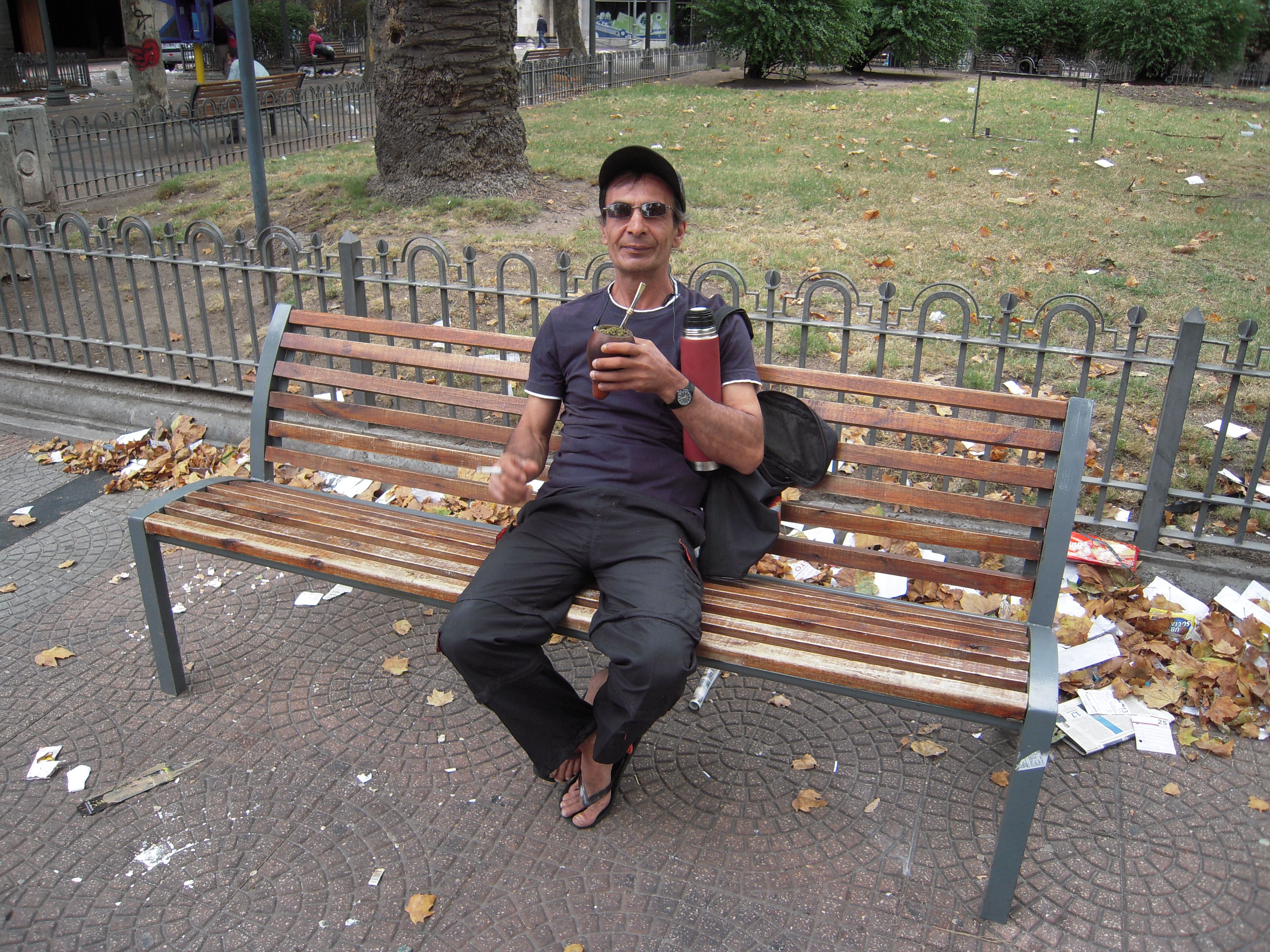 Mate drinking, Plaza Cagancha, Montevideo